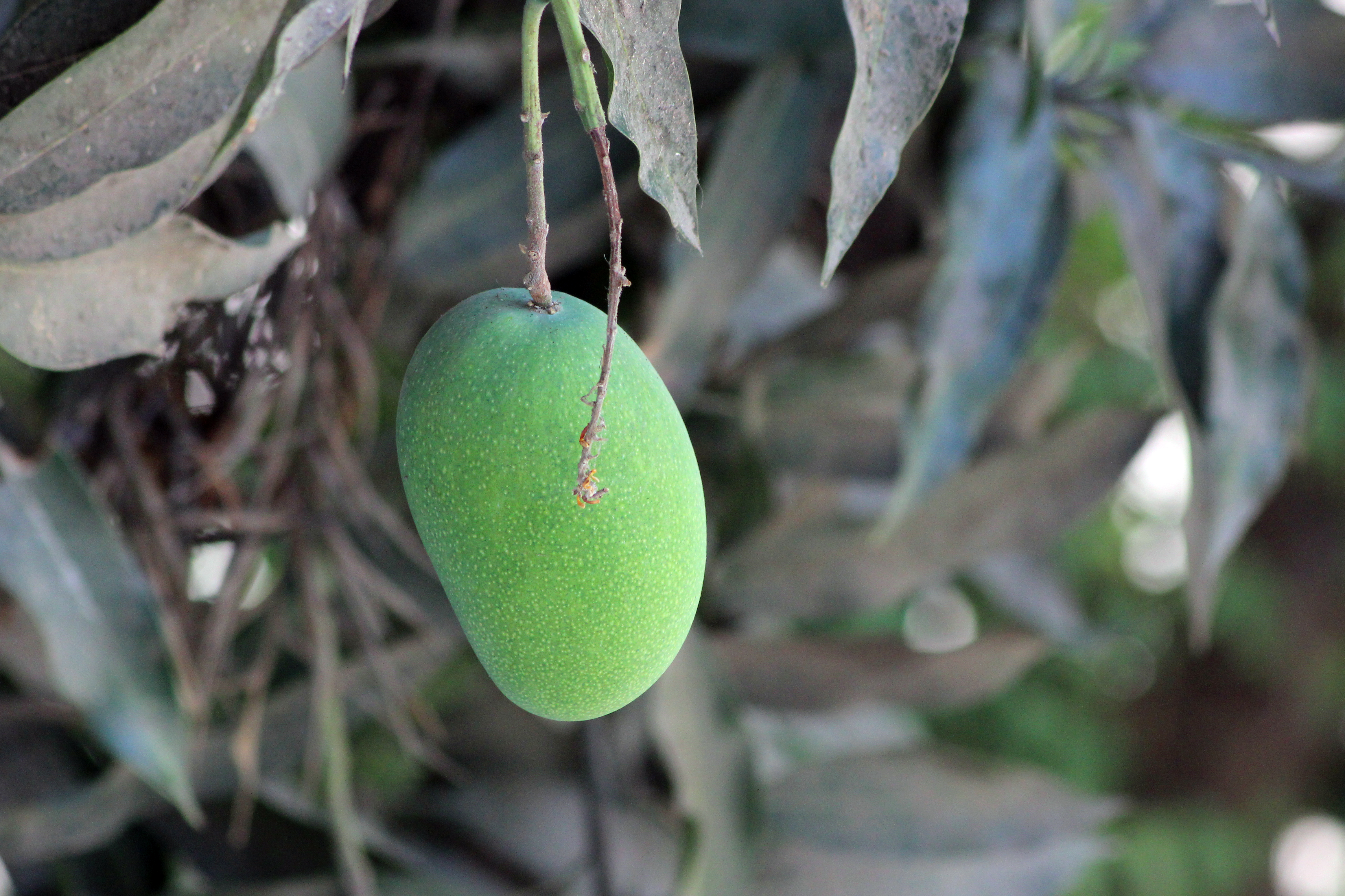 Amrapali Mango from India